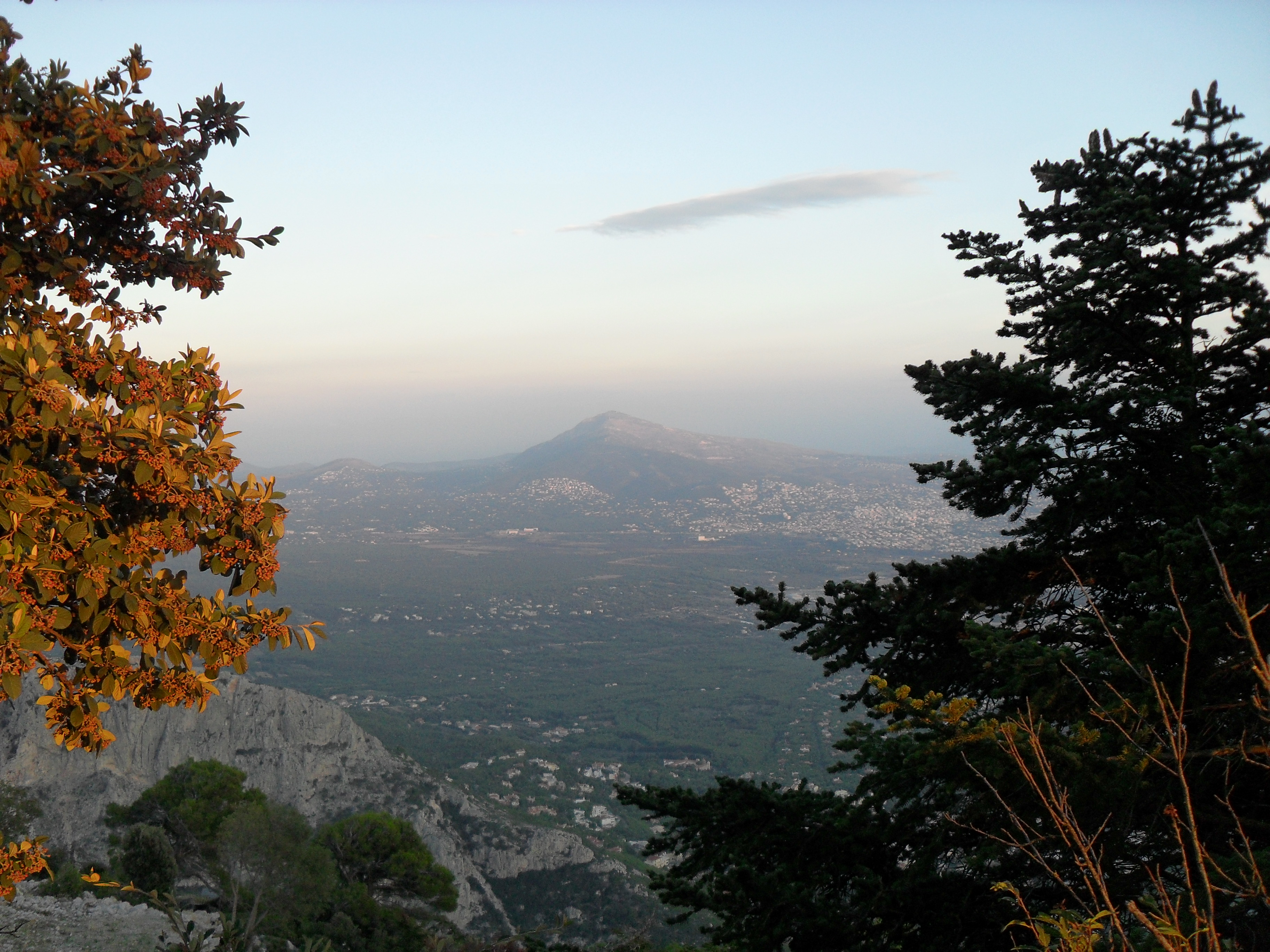 the view from Parnitha, the point Mont Parnes, to Penteli mountain. Down the Thrakomakedones, suburb of Athens.